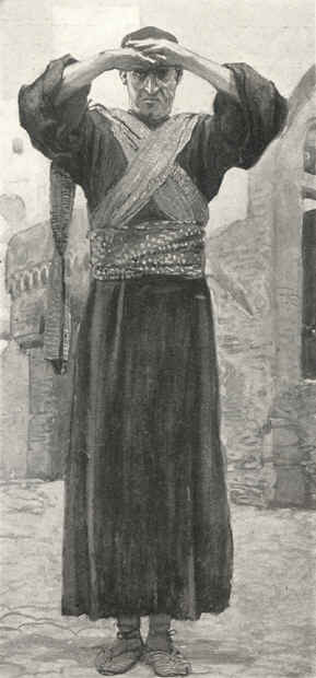 Ezekiel, the Biblical prophet, watercolor circa 1896–1902 by James Tissot